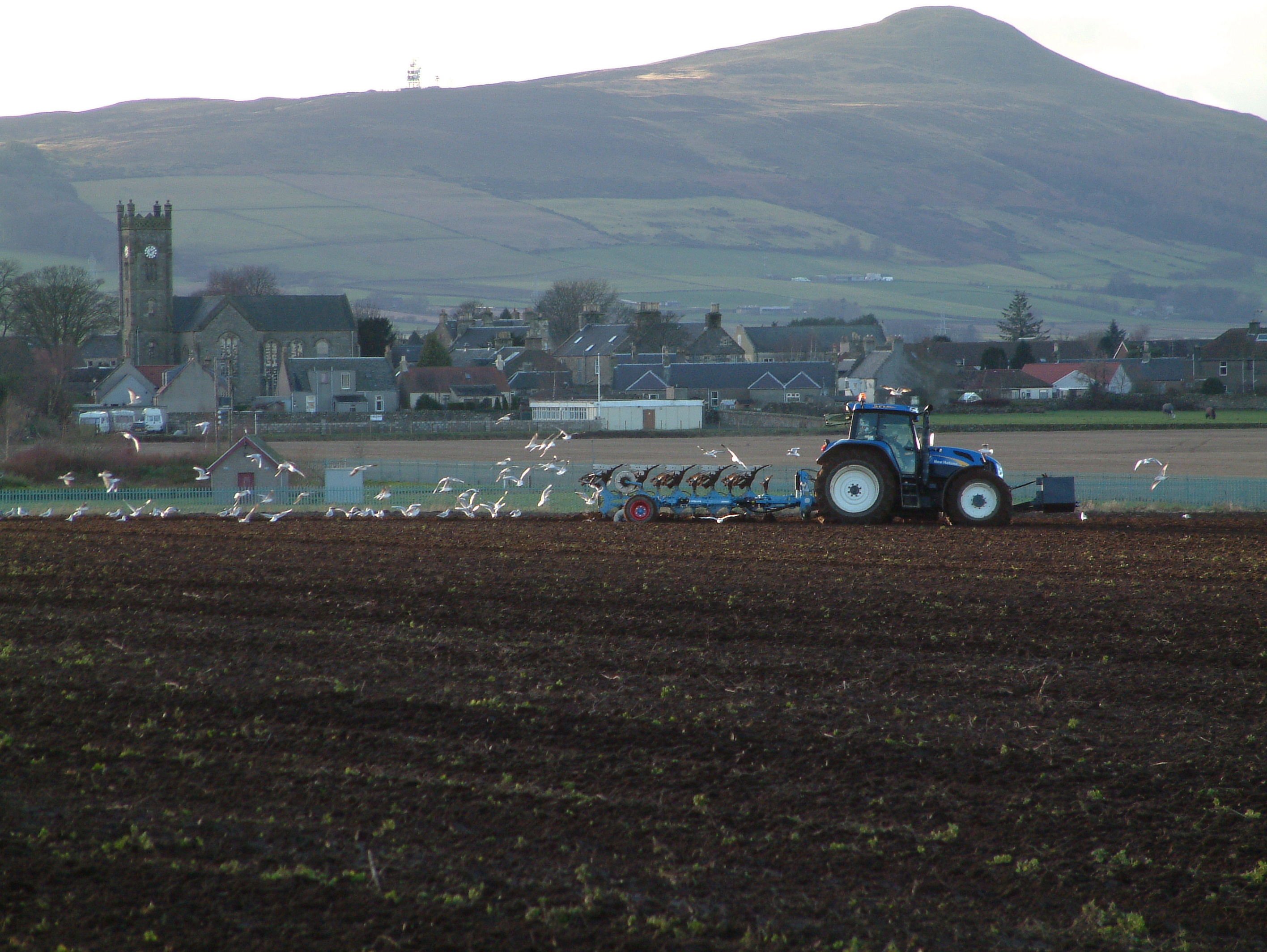 View on Balmalcolm, Scotland.